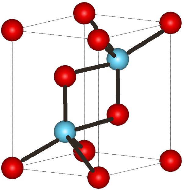 hexagonal structure of Ln2O3 oxides (Ln=rare earth) or U2N3. Red atoms are oxygens (nitrogens) Journal = TRANSACTIONS AND JOURNAL OF THE BRITISH CERAMIC SOCIETY, Year = 1984, Volume = 83, Page = 92–98, Title = Thermal Expansion Data: III Sesquioxides, U2N3, with the corundum and the A-, B- and C-M2O3 structures, Authors = Taylor D.